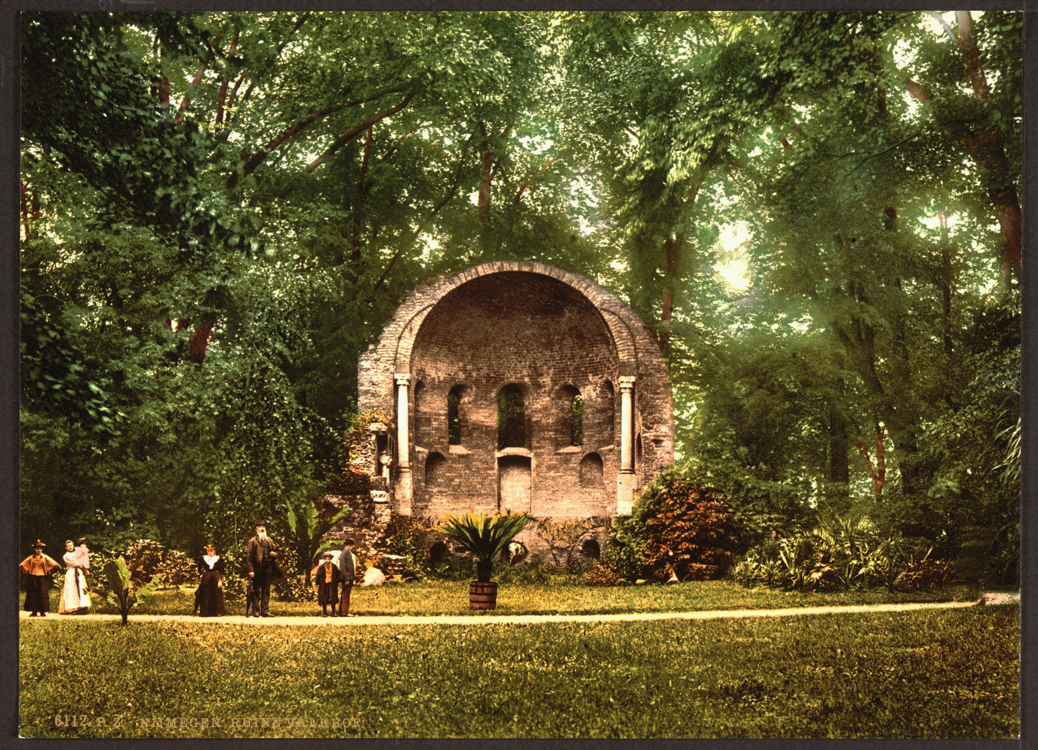 Nijmegen (Netherlands) - Ruins of Valkhof